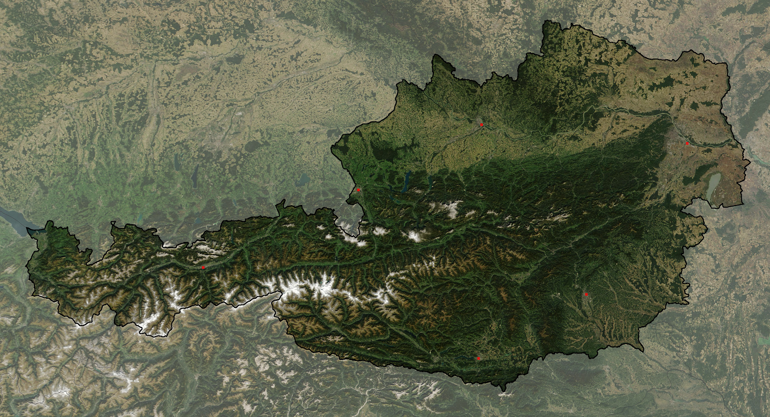 Satellite image of Austria with very few annotations